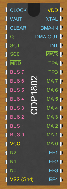 This PNG image is a graphic representation of the RCA COSMAC CDP1802 40-pin LSI CMOS microprocessor with pin notations. Yellow = Power; Green = Output; Blue = Input; Red = Tri-State I/O.